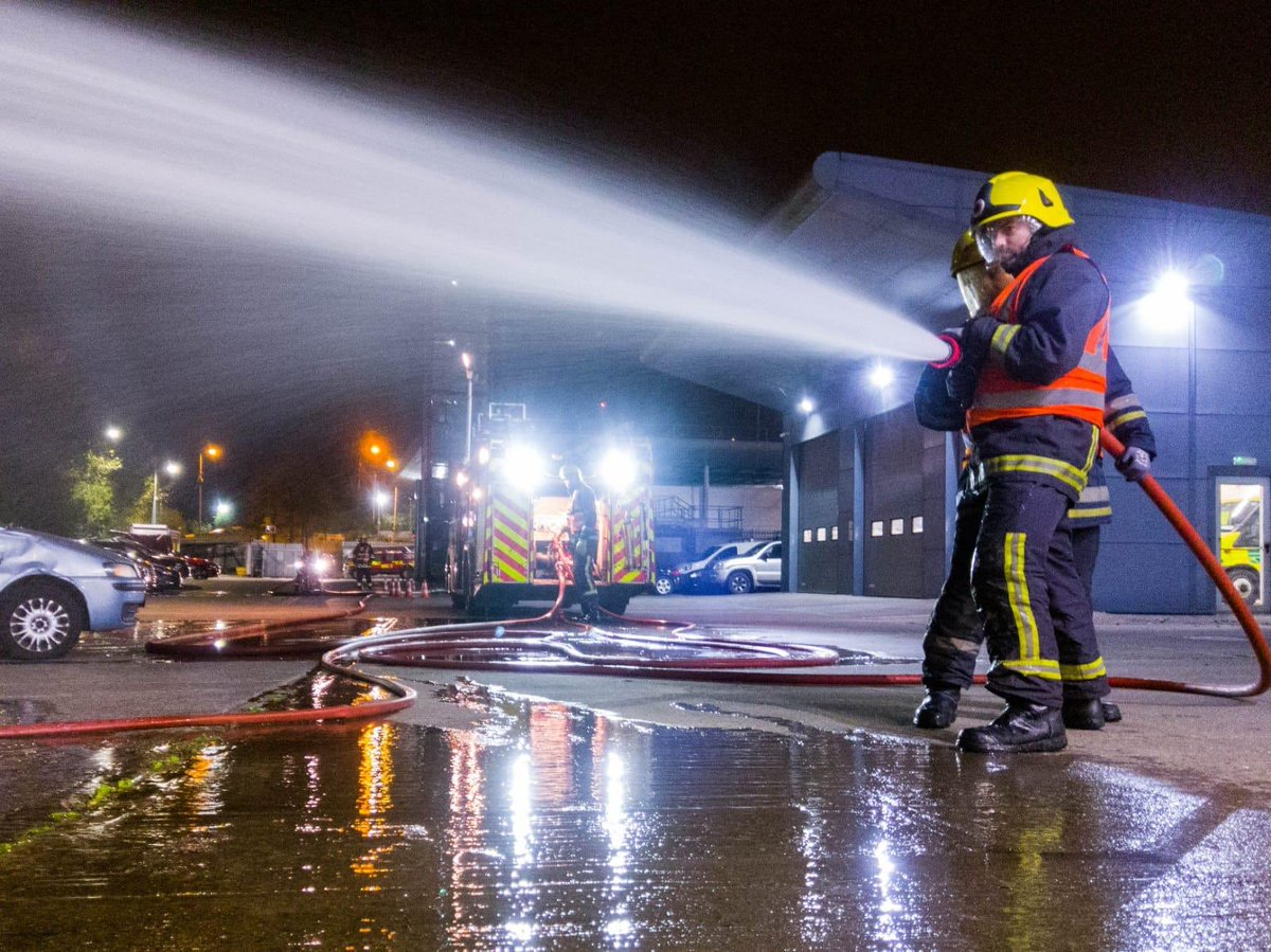 Members of Cork City Civil Defence Auxiliary fire service training (November 2019)